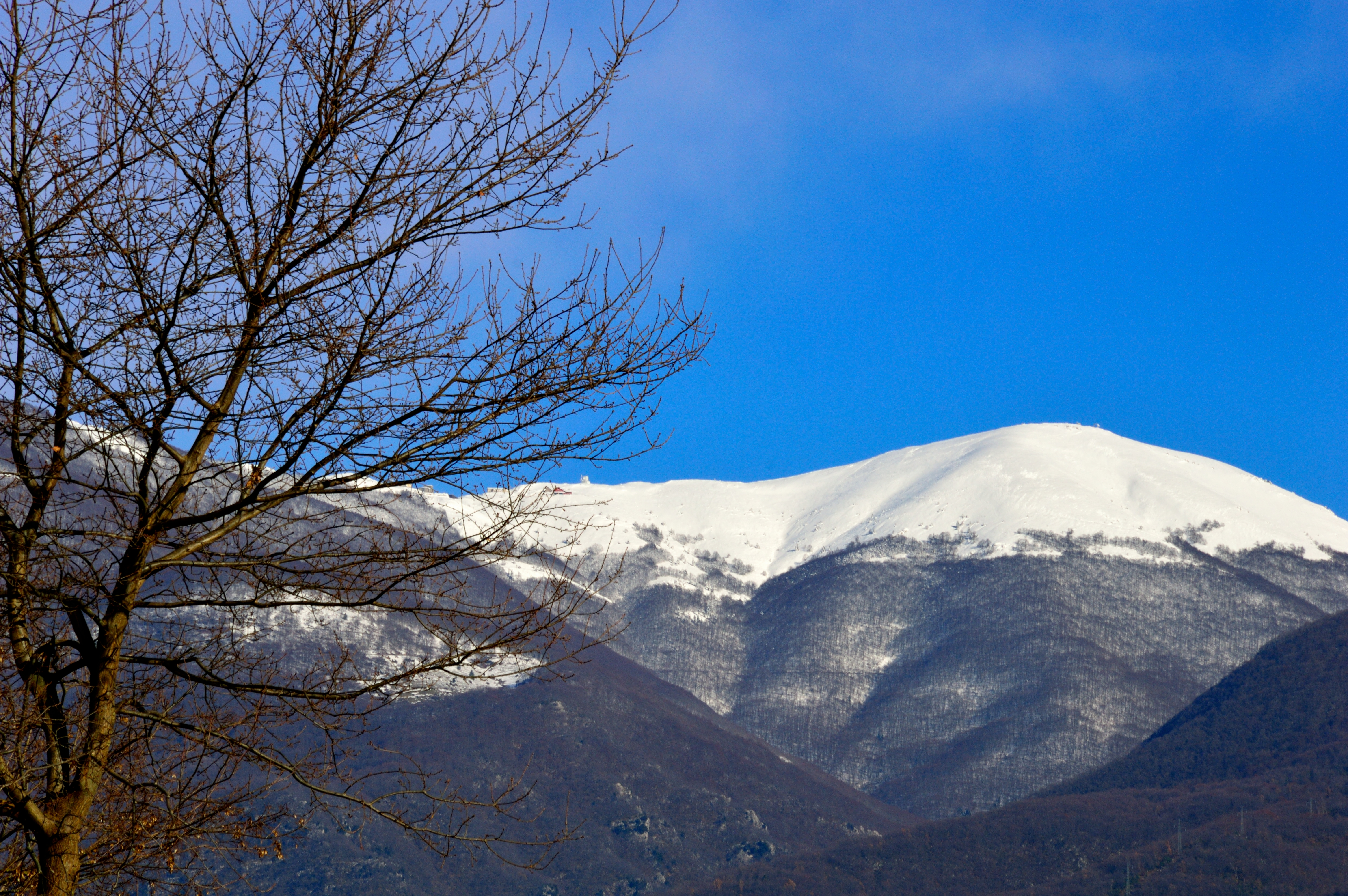 Guarcino, Province of Frosinone, Italy